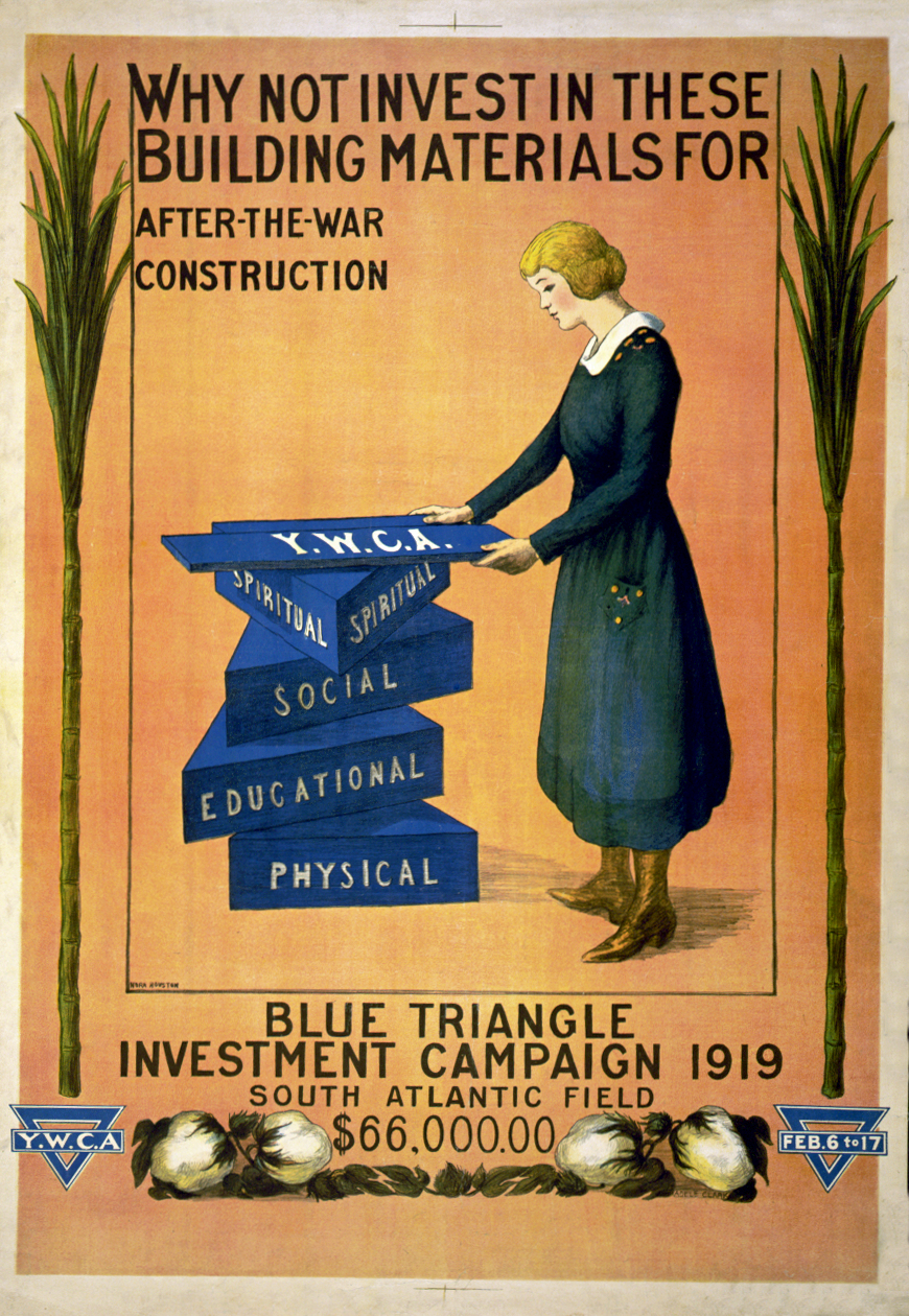 "Why not invest in these building materials for after-the-war construction" - Poster advertising a campaign by the YWCA to fund community projects.